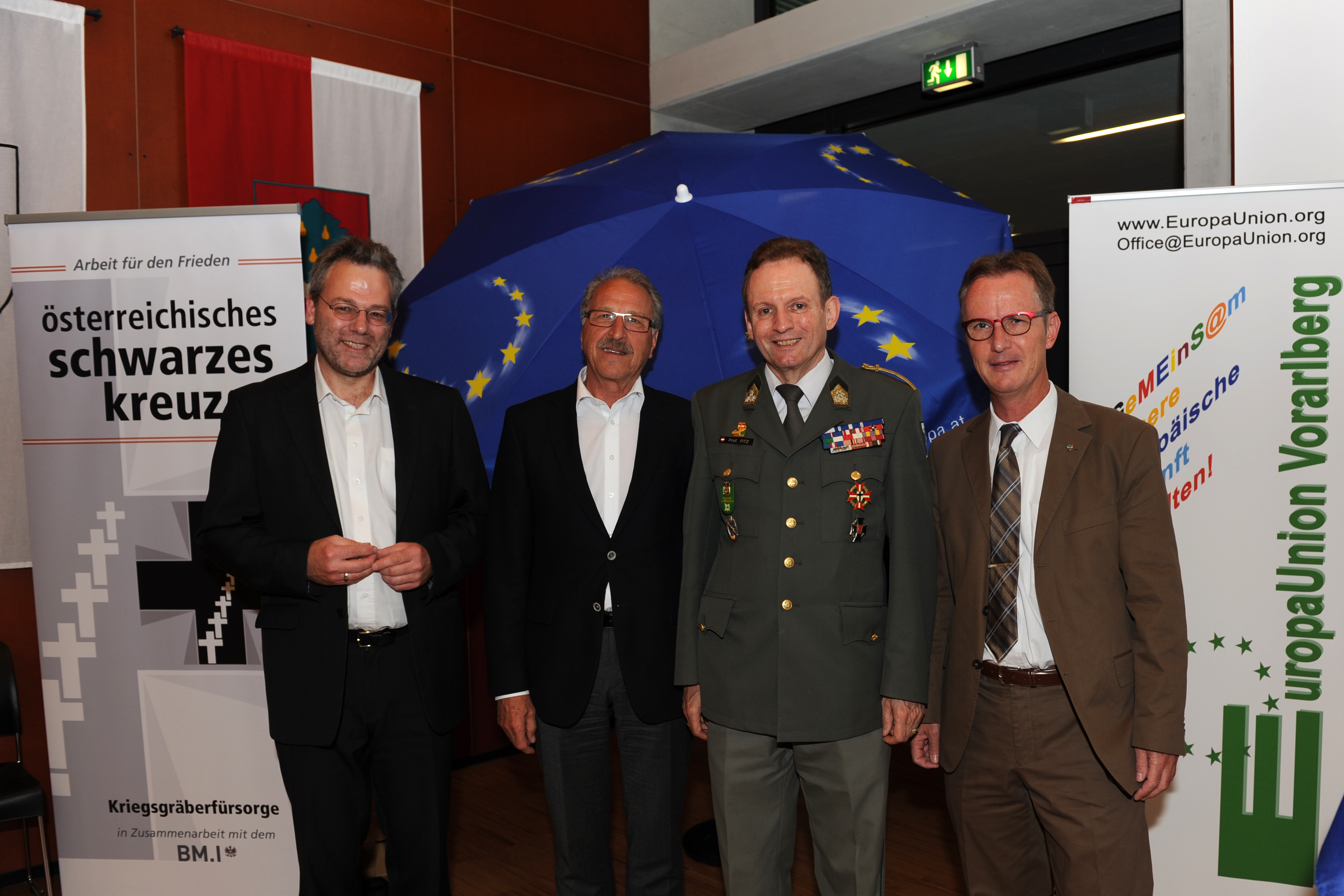 Lecture by EuropeUnion Vorarlberg and the Black Cross in the town hall in Dornbirn 2014. In the picture: RA Dr. Anton Schaefer LL.M. (EuropeUnion Vorarlberg), Erwin Mohr (Mayor of Wolfurt - inactiv), Colonel Erwin Fitz (Black Cross - OSK, war graves commission), Guntram Maeser (town council of the city of Dornbirn).